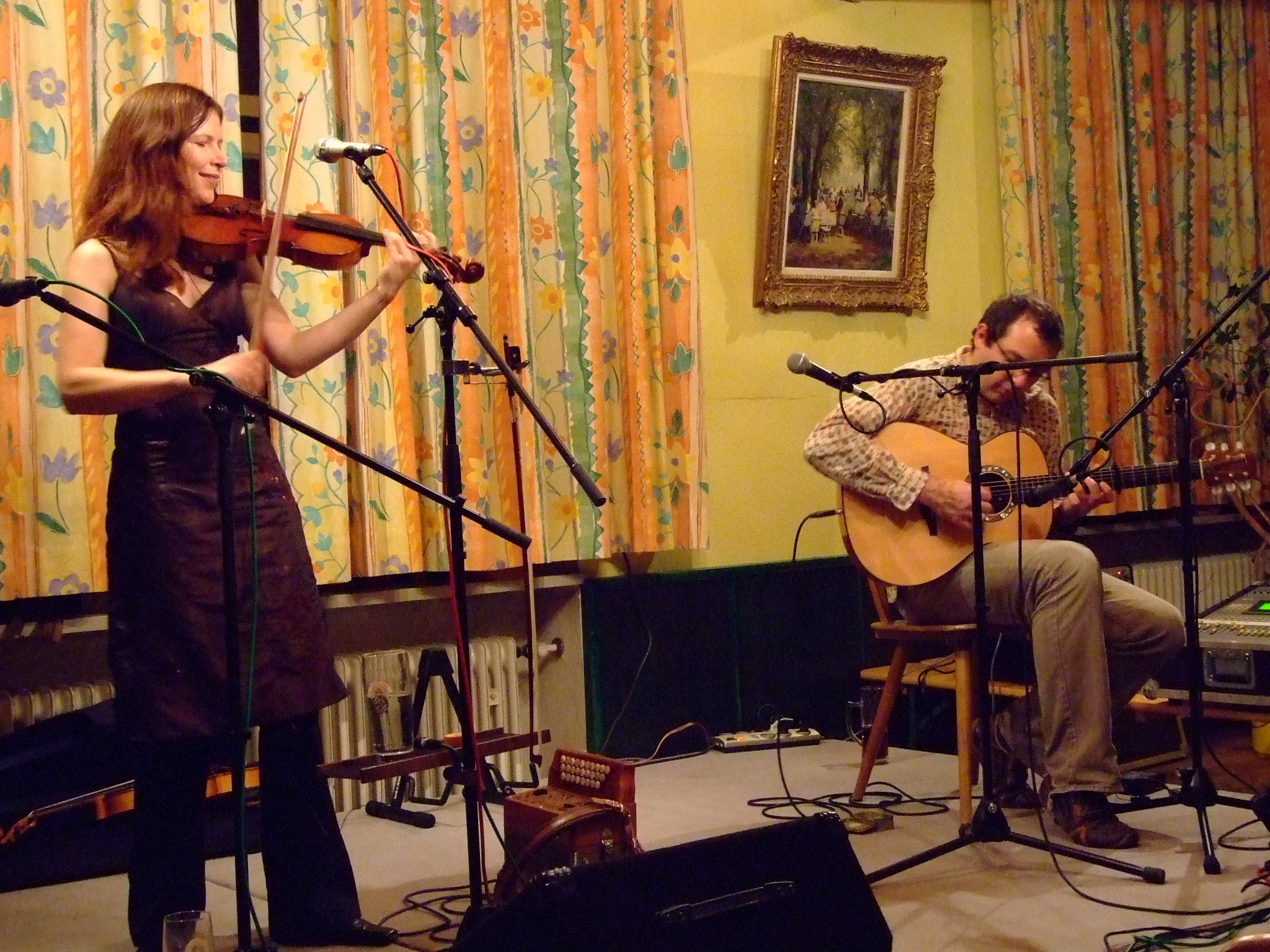 Deitsch, a German folk band, live at the Schusterhäusl, Germering, Bavaria, Germany